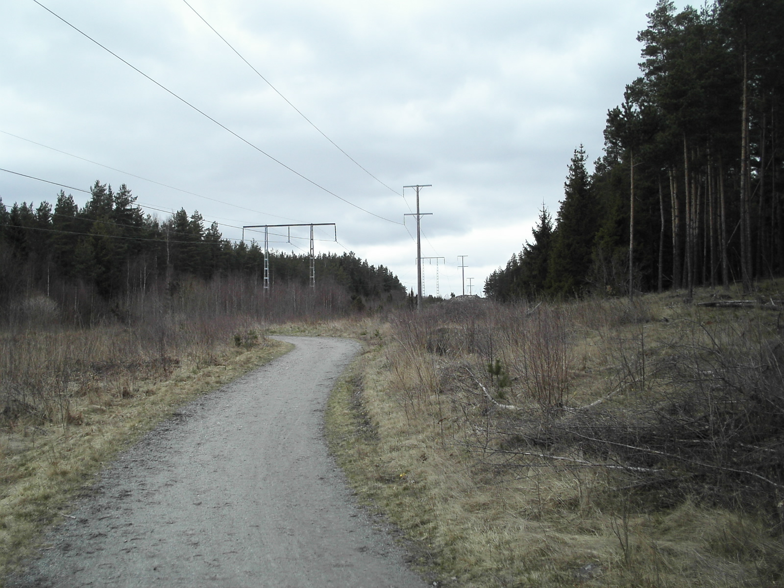 Three-phase AC power line pylons (left) and 130 kV single-phase power supply of Swedish railway (right)